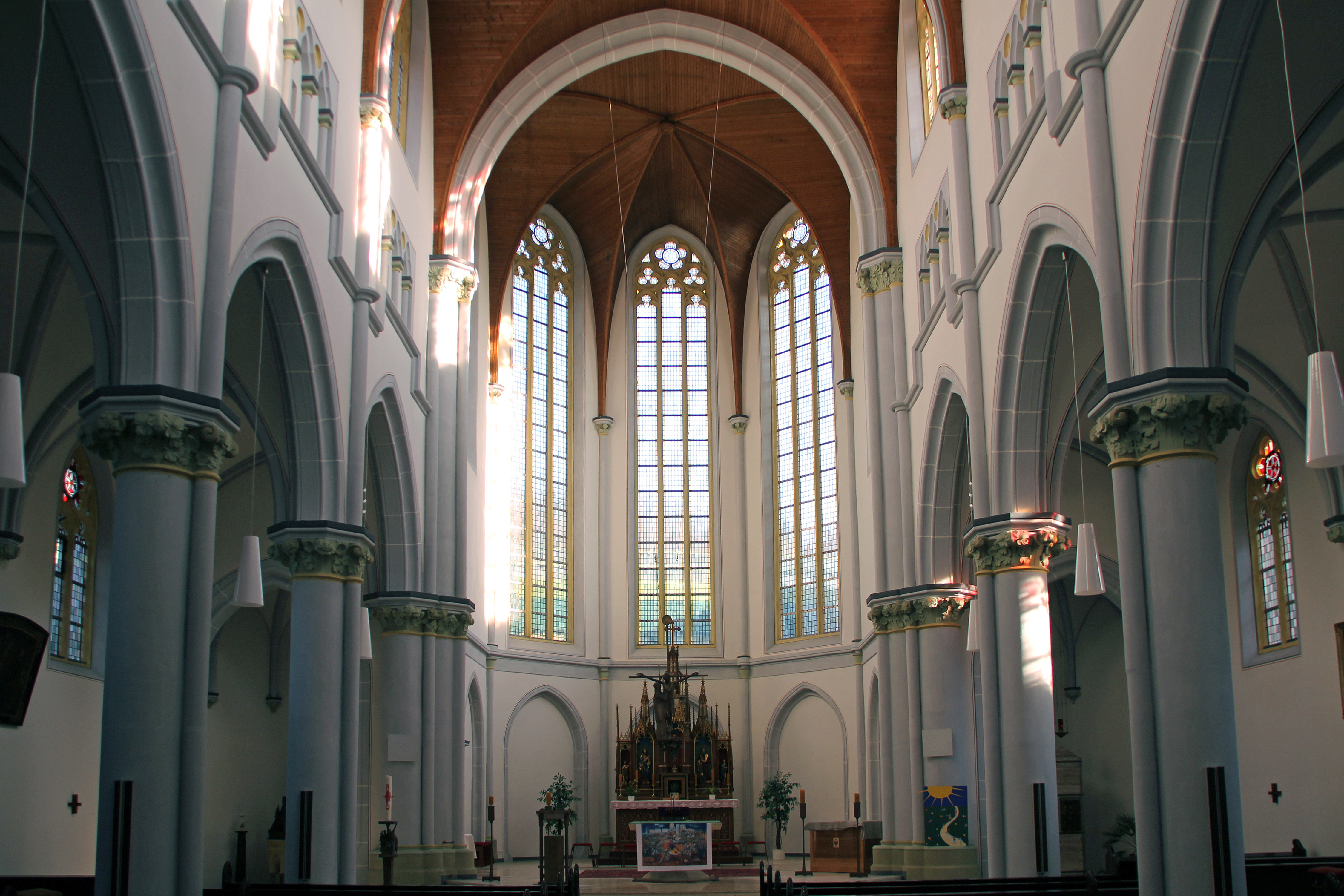 St. Peter and Paul church in Koblenz